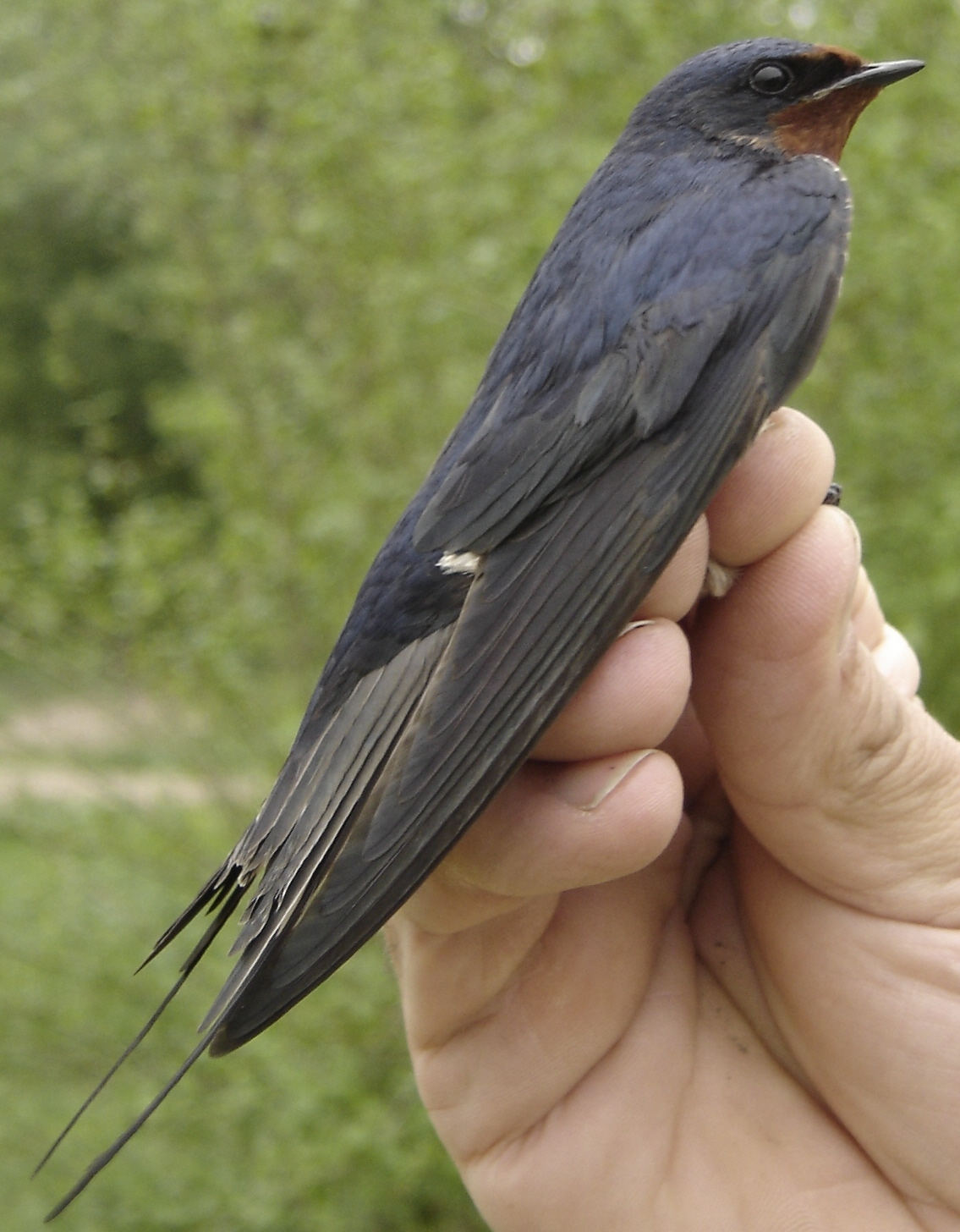 Hirundo rustica young male spring